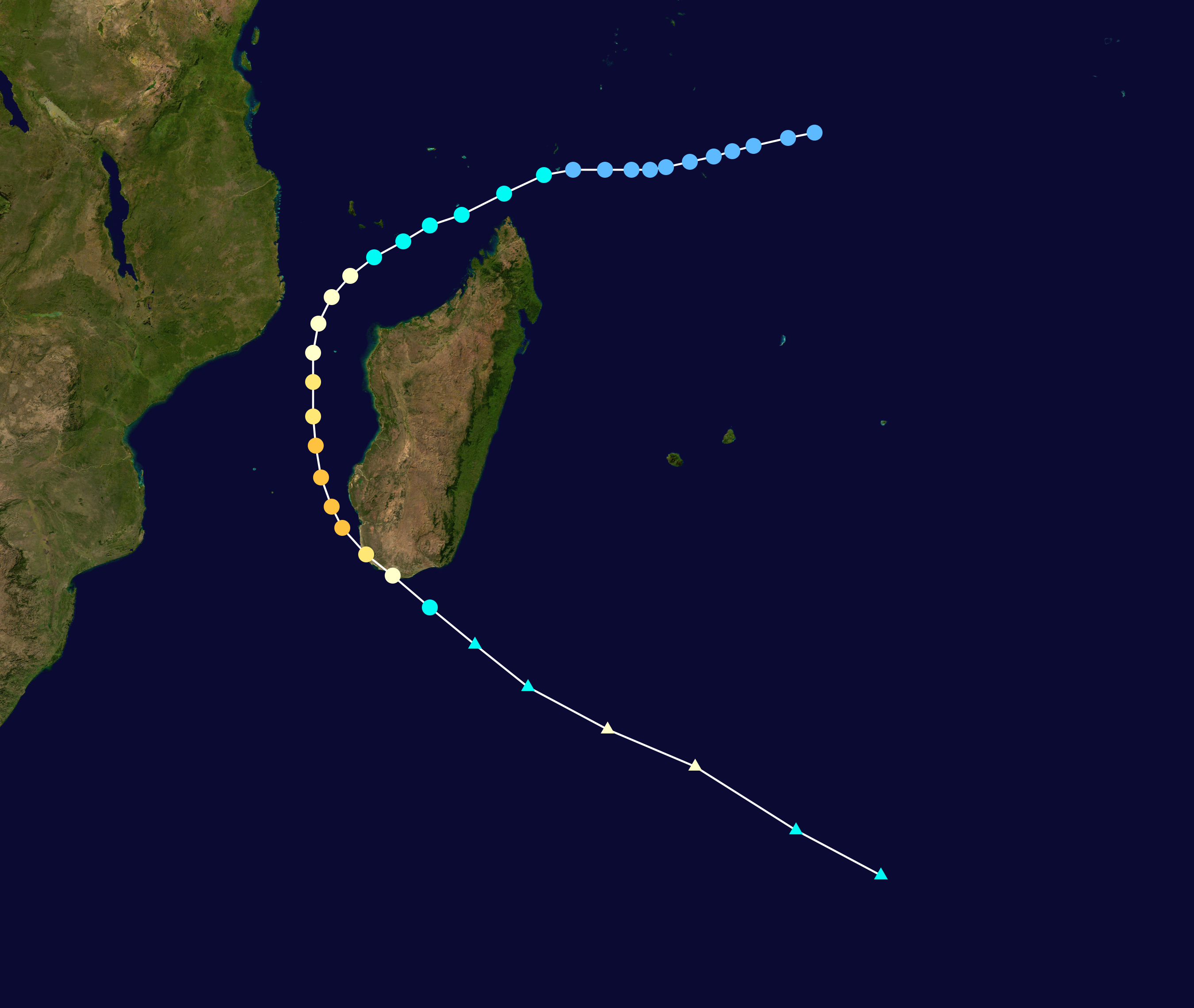 Cyclone Ernest (2005) track. Uses the color scheme from the Saffir-Simpson Hurricane Scale.